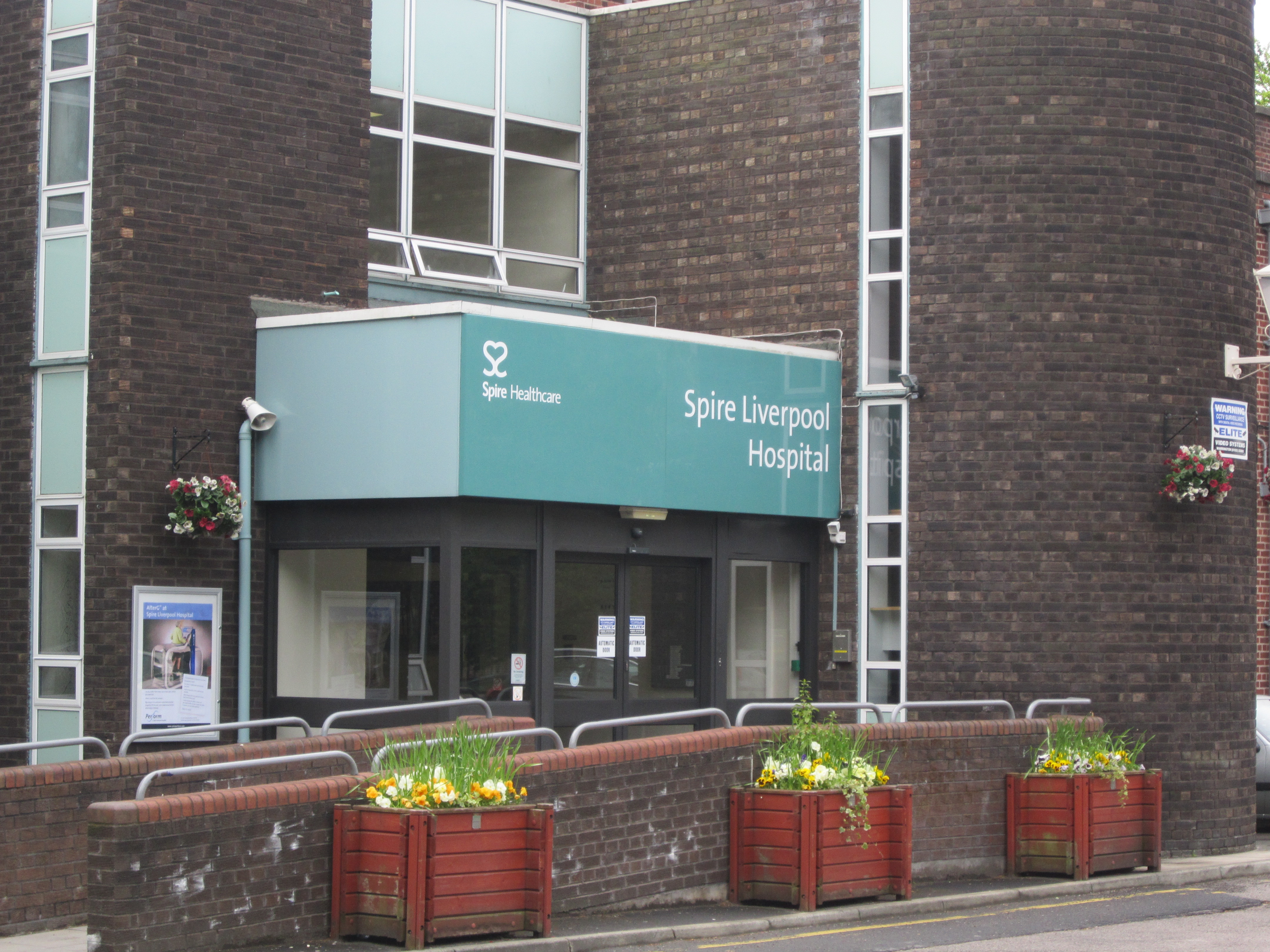 Spire Liverpool Hospital, Greenbank Road, Mossley Hill, Liverpool, England.